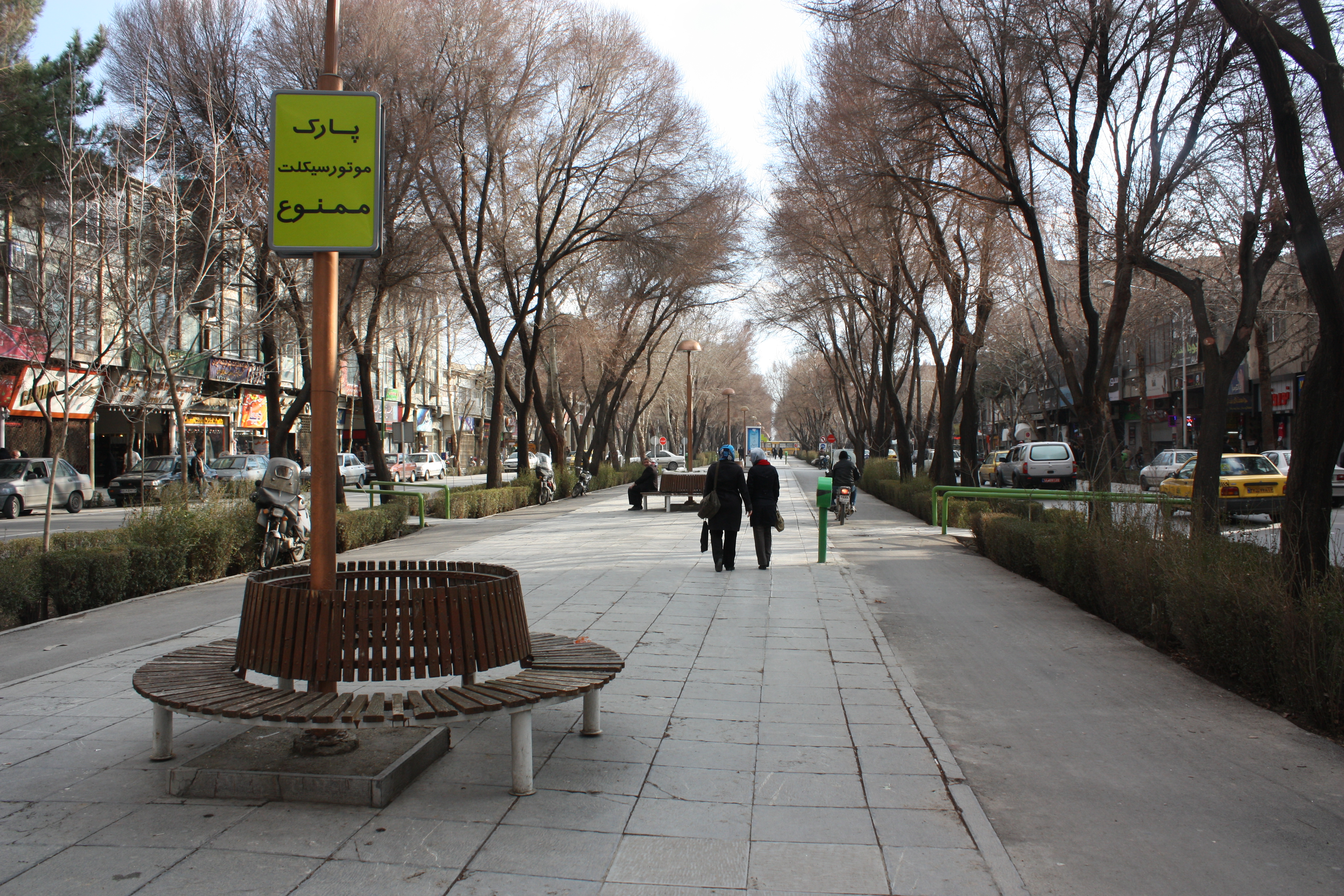 Chrbagh street, Isfahan